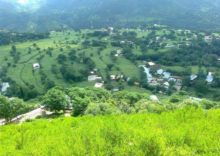 Satora